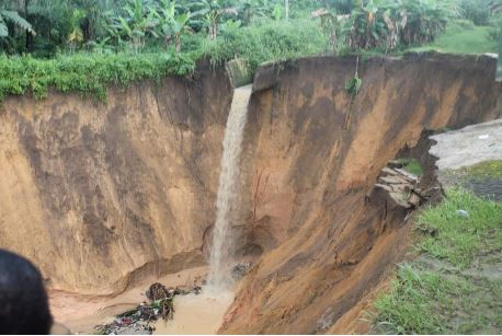 A poorly terminated drain that resulted into a gully.